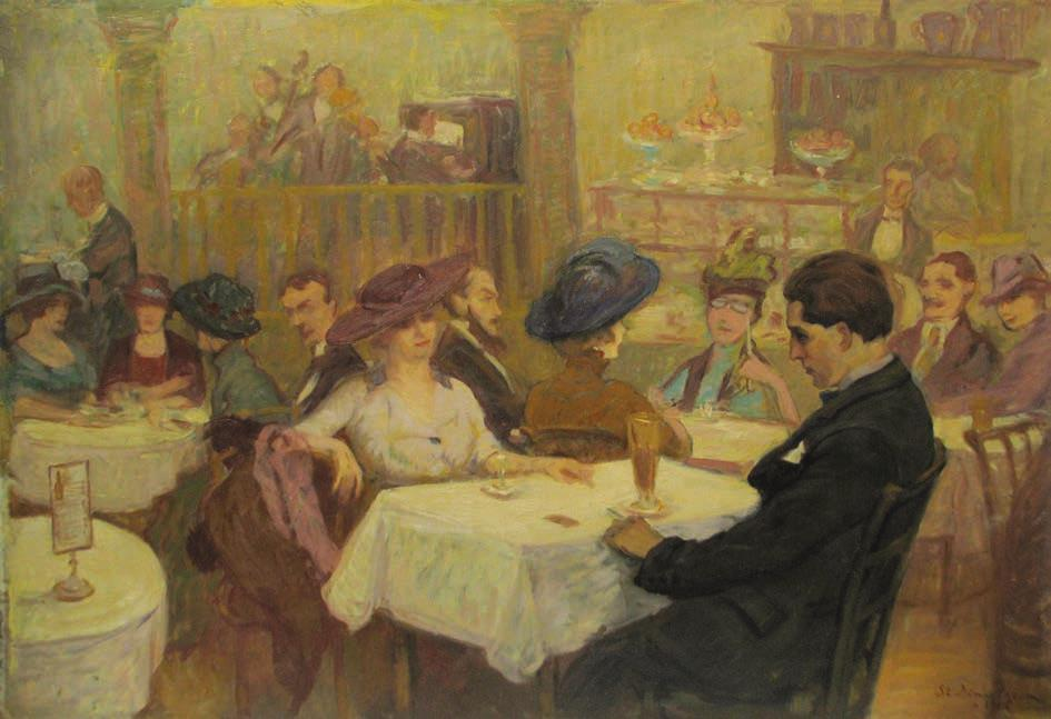 Ştefan Dimitrescu (1886-1933) - "La Oteteleşanu" ("Oteteleşanu's [Terrace]"), oil on cardboard, 57x82.5cm, signed in brown, bottom right side, dated 1915. Also known as La berărie ("In the Beer-House"), and described as a satire of bourgeois life in Bucharest (see Ionel Jianu, Ştefan Dimitrescu, ESPLA, Bucharest, 1954, p.14-16. OCLC 30307206)